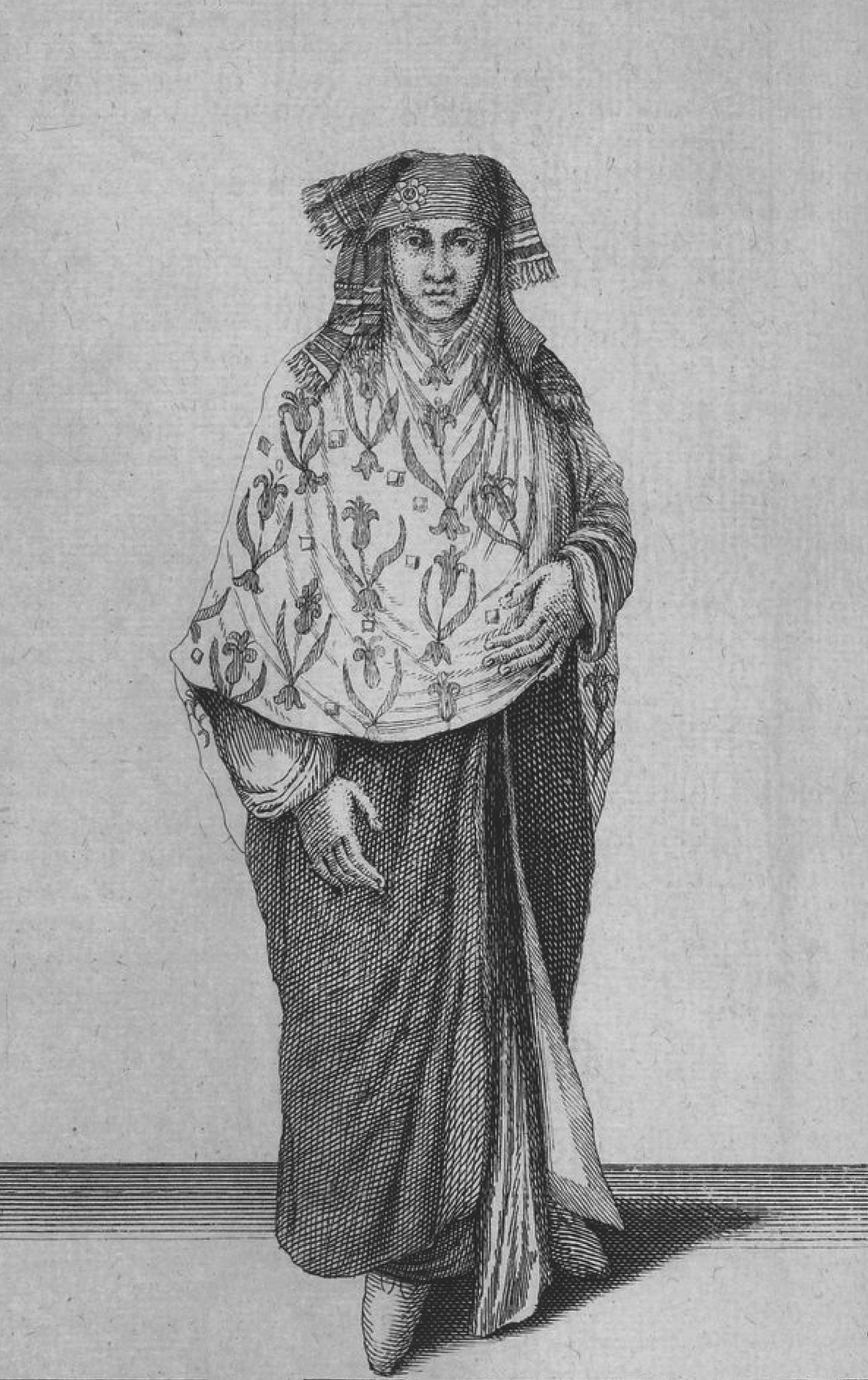 Customs: Zarathushti Women's clothing in Safavid Persia.